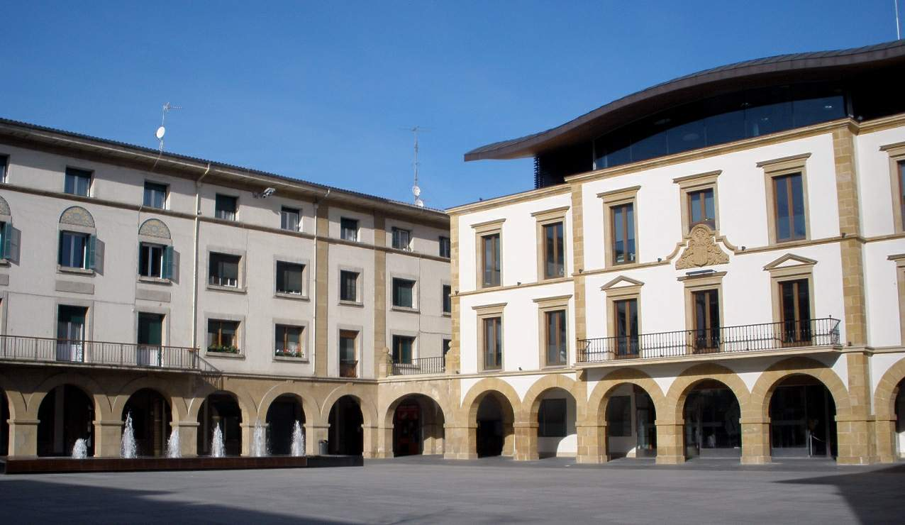 Ayuntamiento de Amorebieta (Vizcaya)